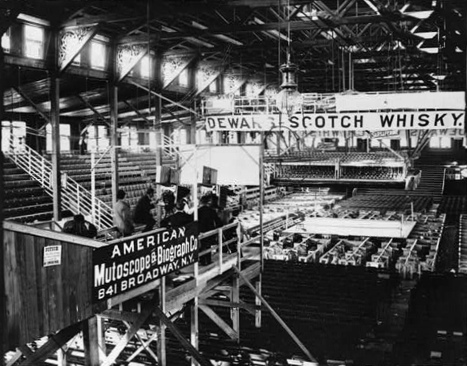 View of seating with boxing ring in the center; scaffold at left set up with lighting or camera equipment.